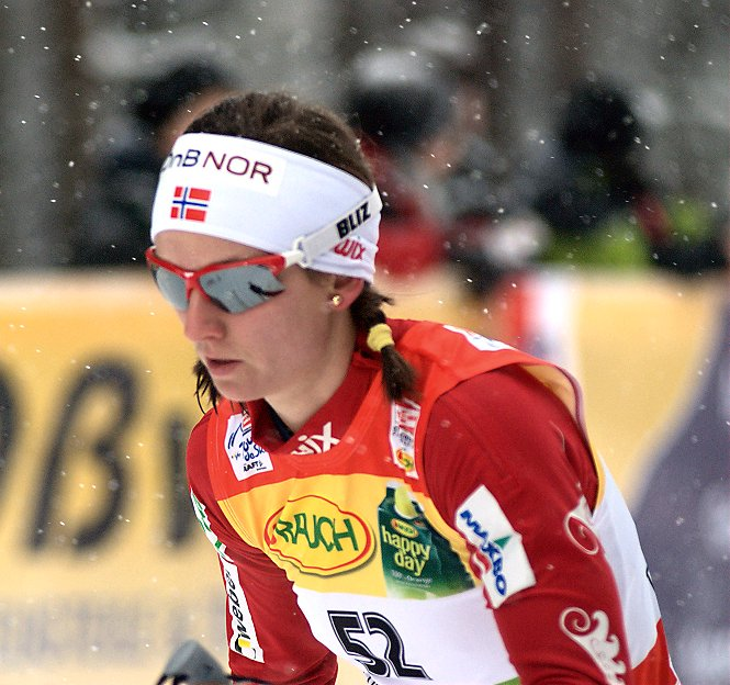 Celine Brun-Lie at the Tour de Ski 2010 in Oberhof